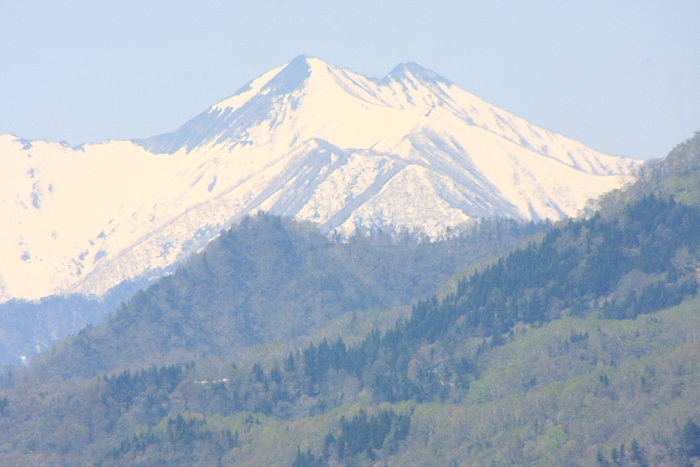 Mount Soematsu (Soematsu-dake) as seen from Kochien, Taiki Town